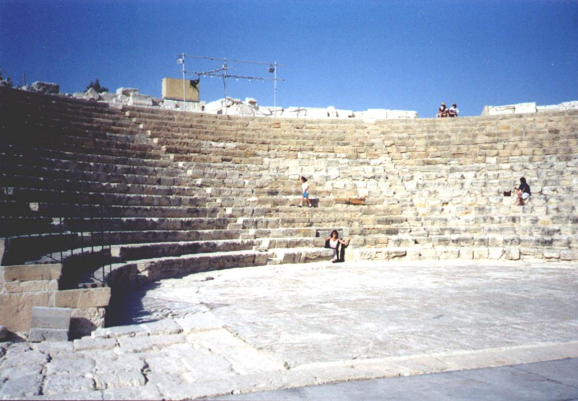 Theater of Salamis in the ancient city of Cyprus.